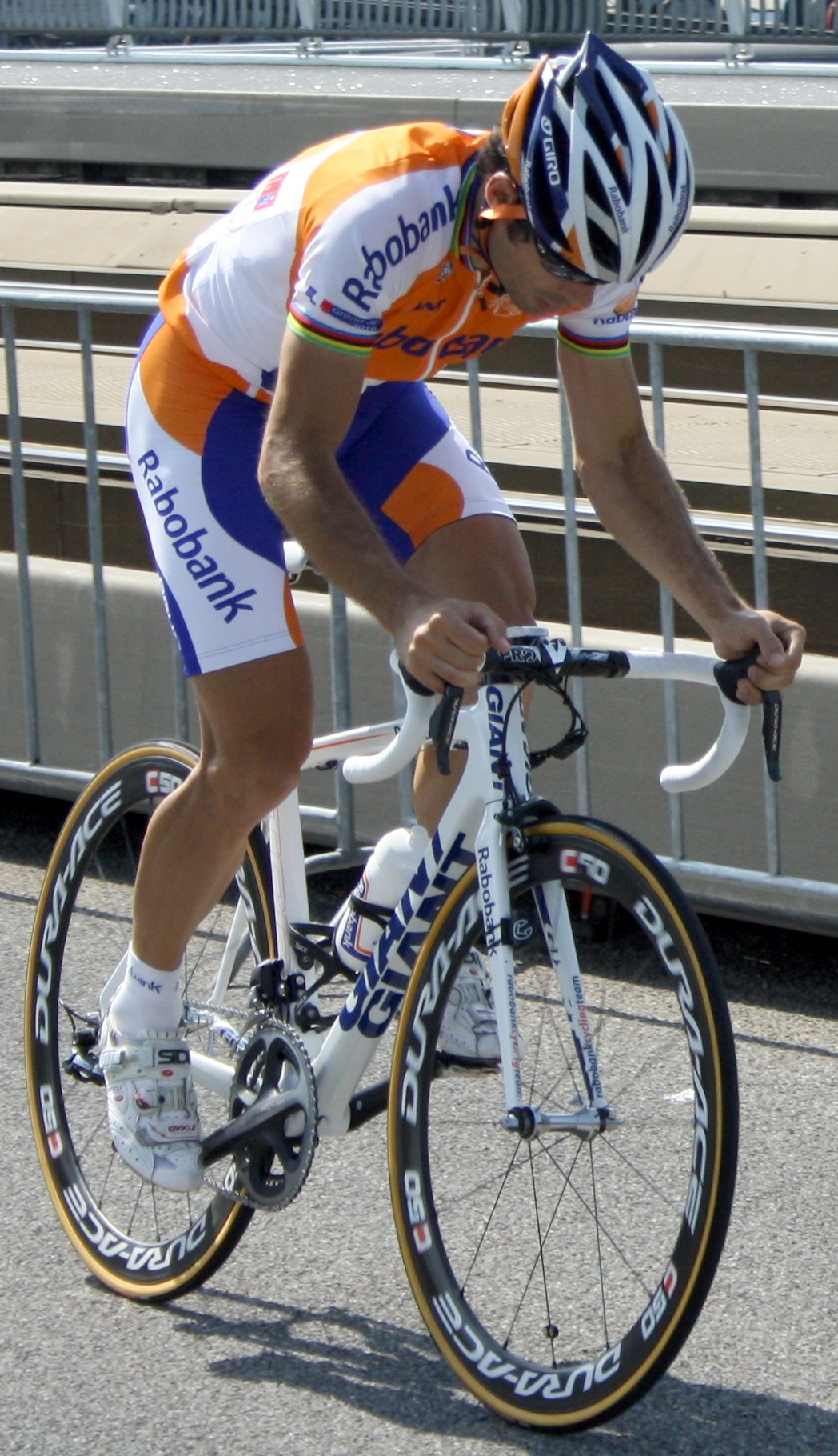 Óscar Freire training for the prologue of the 2010 Tour de France in Rotterdam